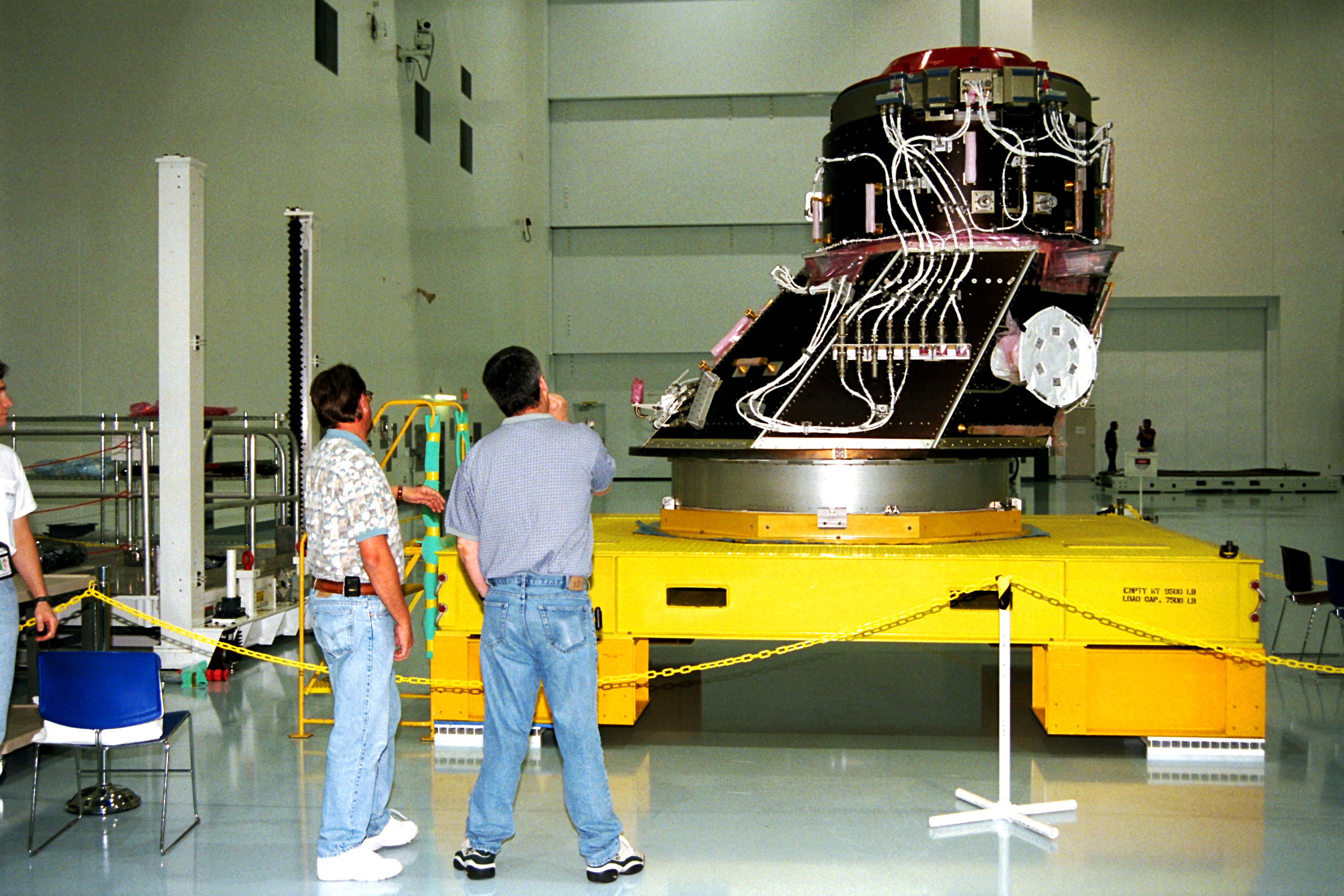 International Space Station's Pressurized Mating Adapter-3 arrives in SSPF